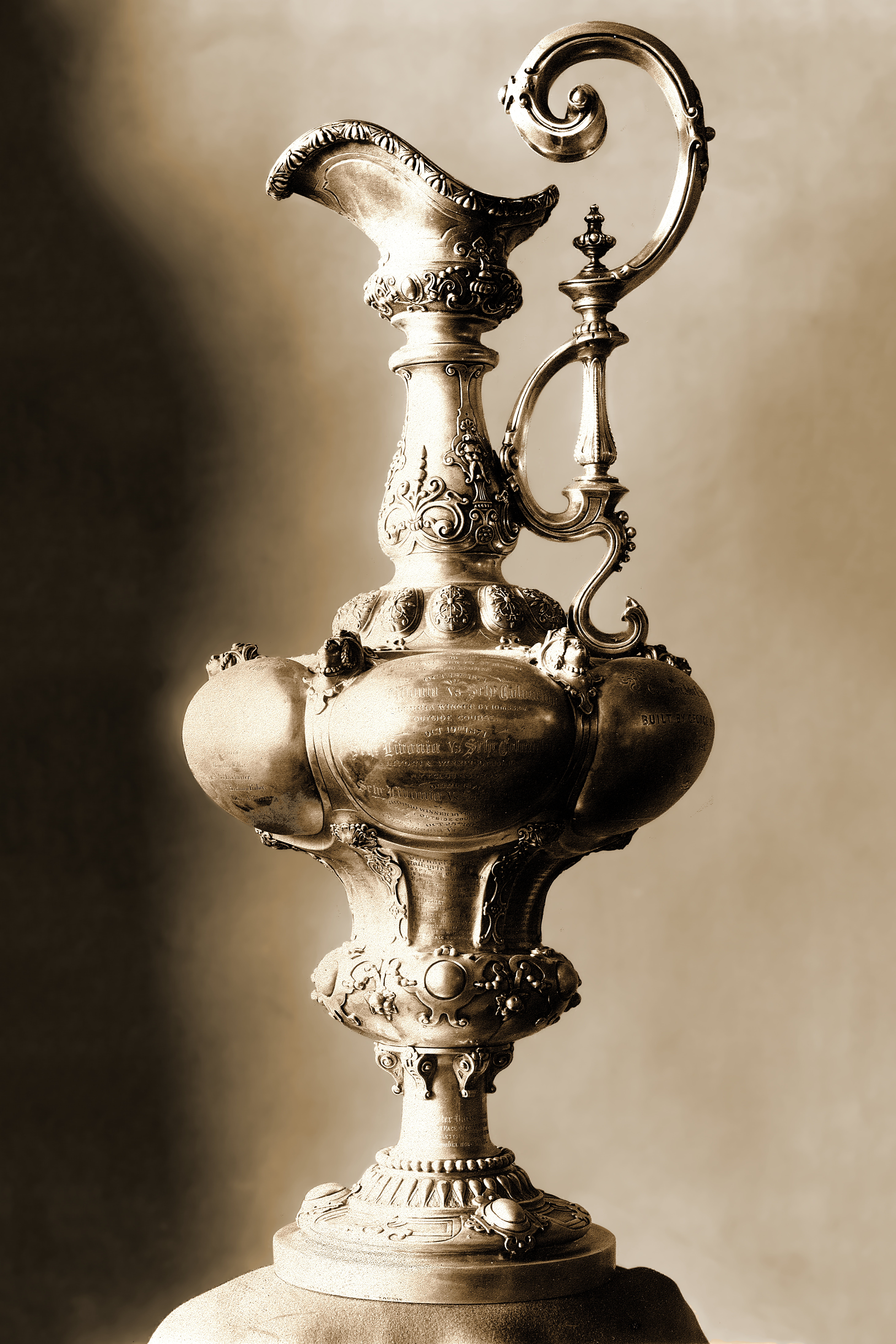 The America's Cup